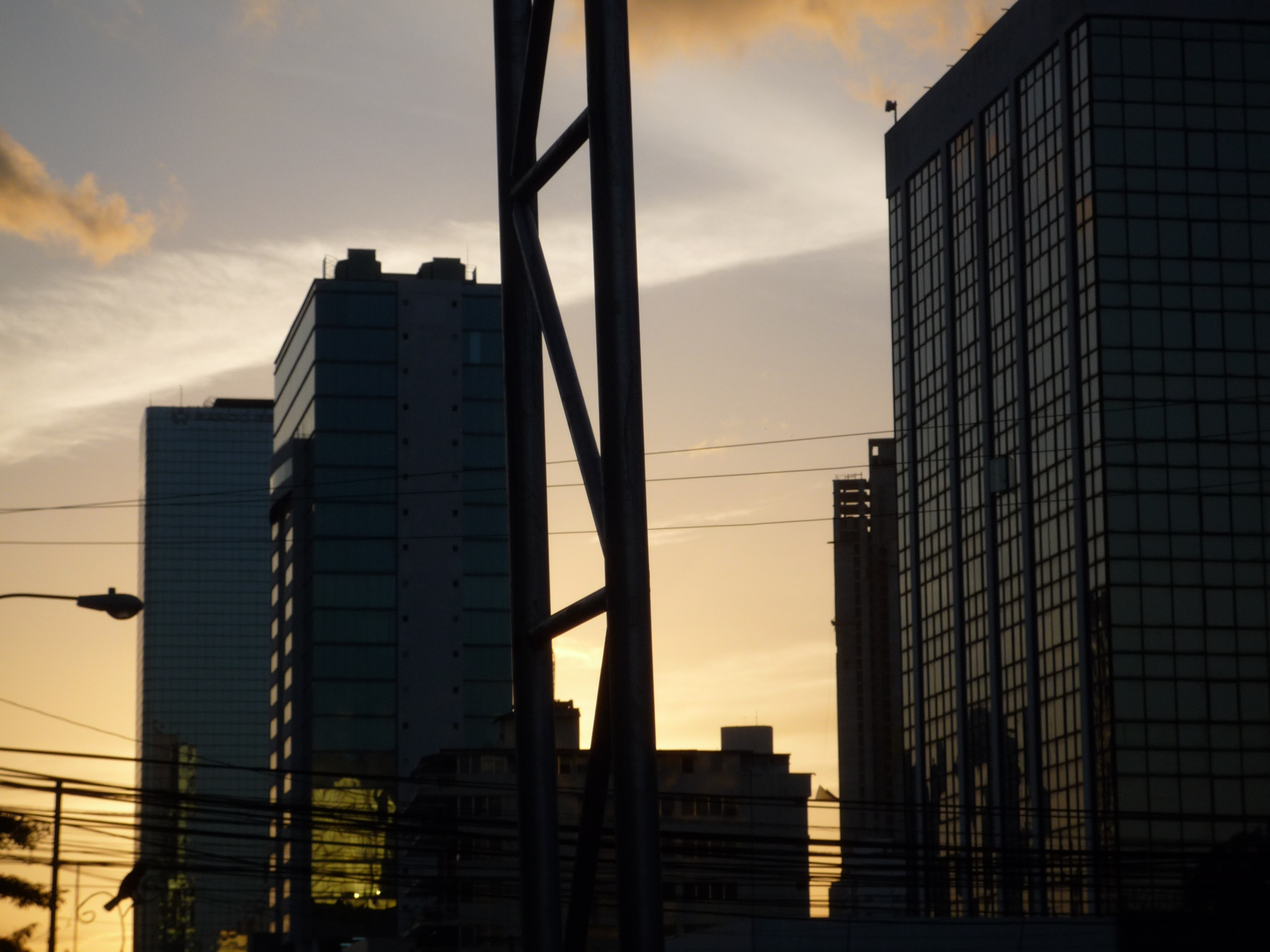 image of 50th Street, in a sunset in Panama City